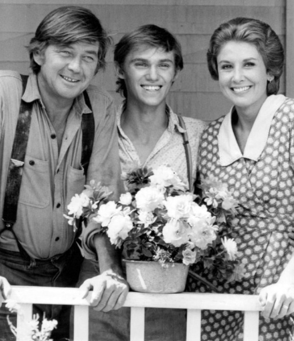 Publicity photo of Ralph Waite (John Walton, Sr.), Richard Thomas (John Boy), and Michael Learned (Olivia Walton) from the television program The Waltons.